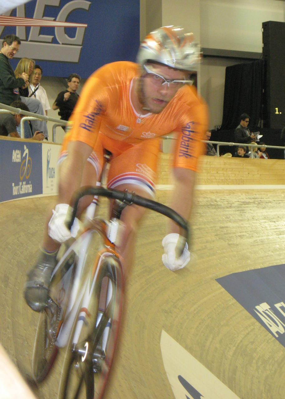 2008 World Cup Cycling, Los Angeles. Day 3, sprint qualifying.